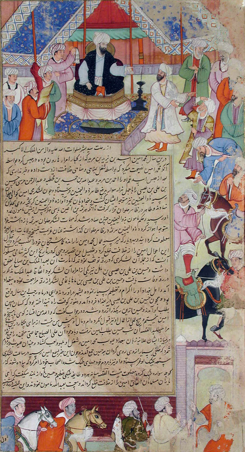 Series Title: Tarikh-i Alfi Creation Date: ca. 1593 Display Dimensions: 16 21/32 in. x 9 17/32 in. (42.3 cm x 24.2 cm) Credit Line: Edwin Binney 3rd Collection Accession Number: 1990.291 Collection: The San Diego Museum of Art